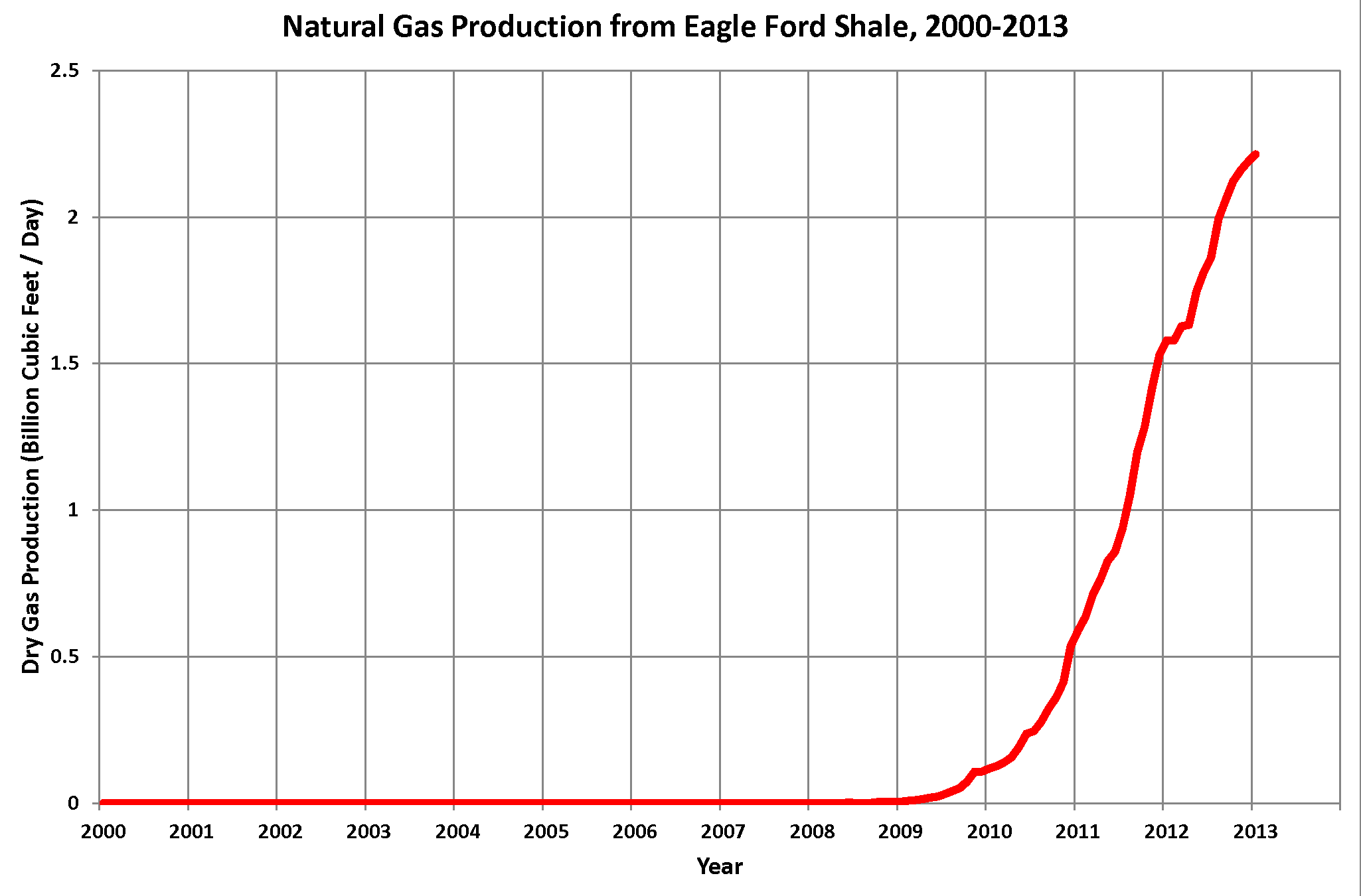 Gas production from the Eagle Ford Shale